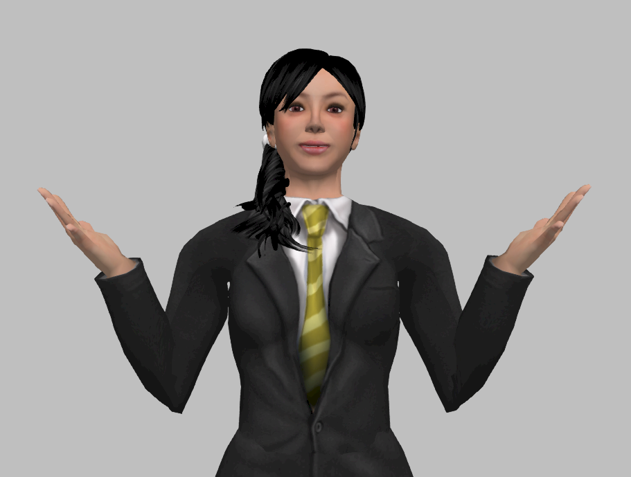 Warota pose - A pose of the song "Warota people" (2017) performed by Japanese girl group NMB48